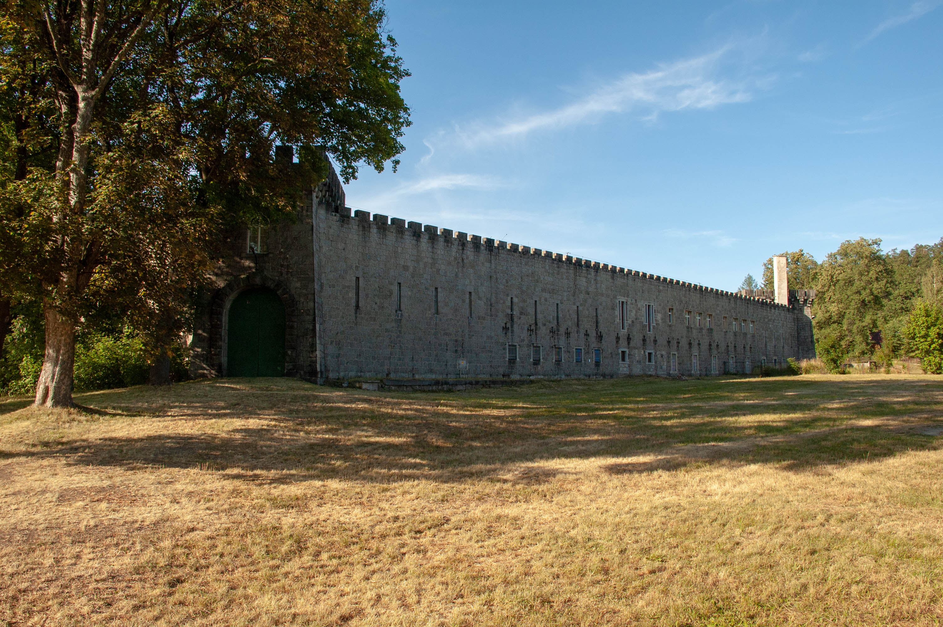 This photograph was created as a part of Wikiexpedition Lower Silesia, a project supported by Wikimedia Poland grant.